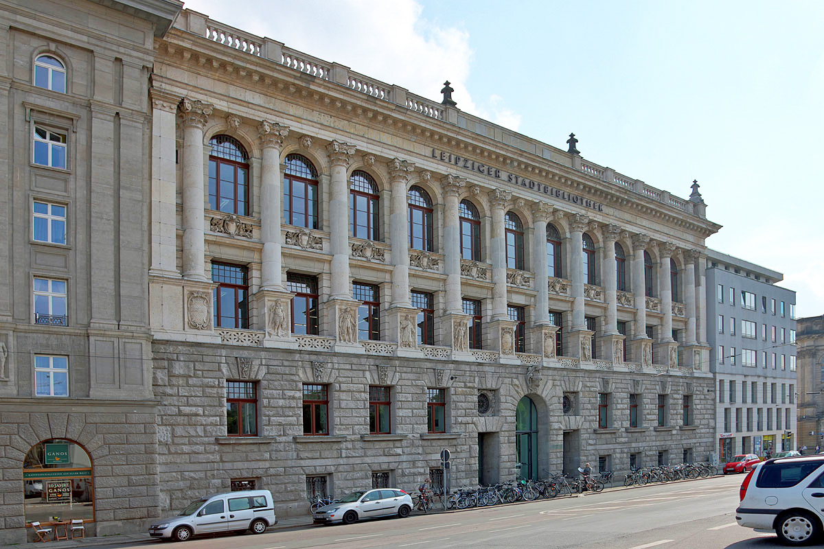 Old Grassimuseum, today Leipziger city library